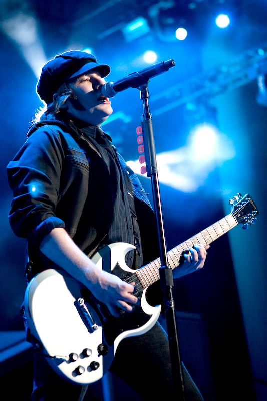 Patrick Stump performing in Monto Water Rats, London on May 3rd, 2011